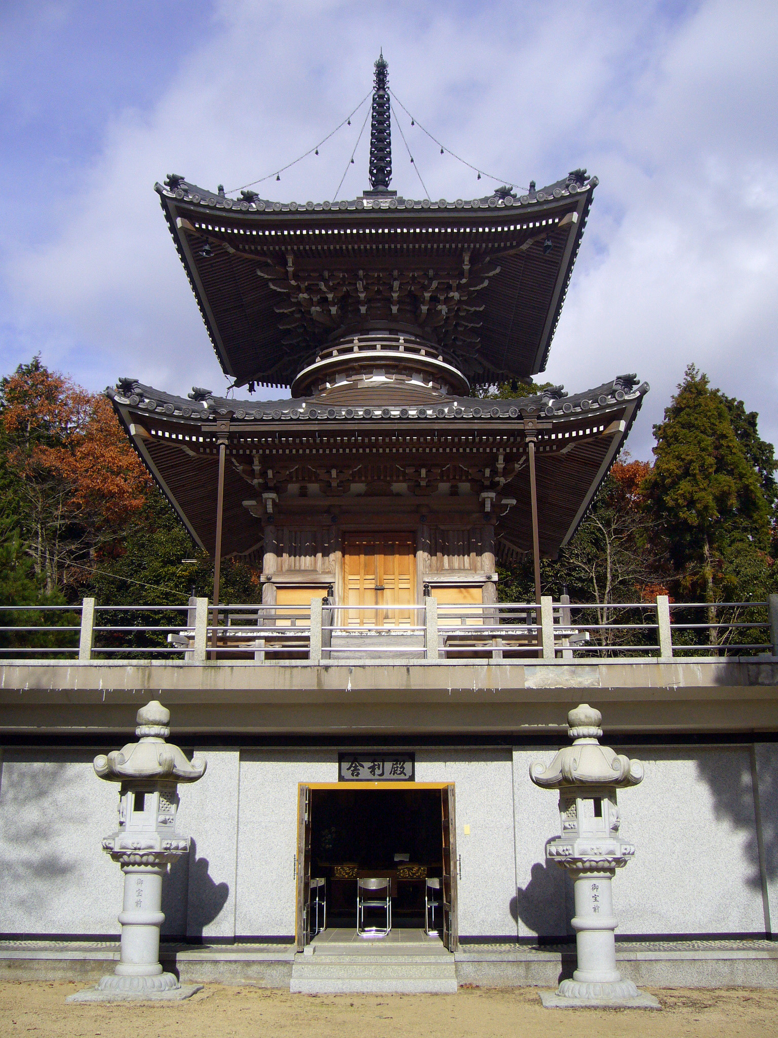 Jurinji in Nishinomiya, Hyogo prefecture, Japan